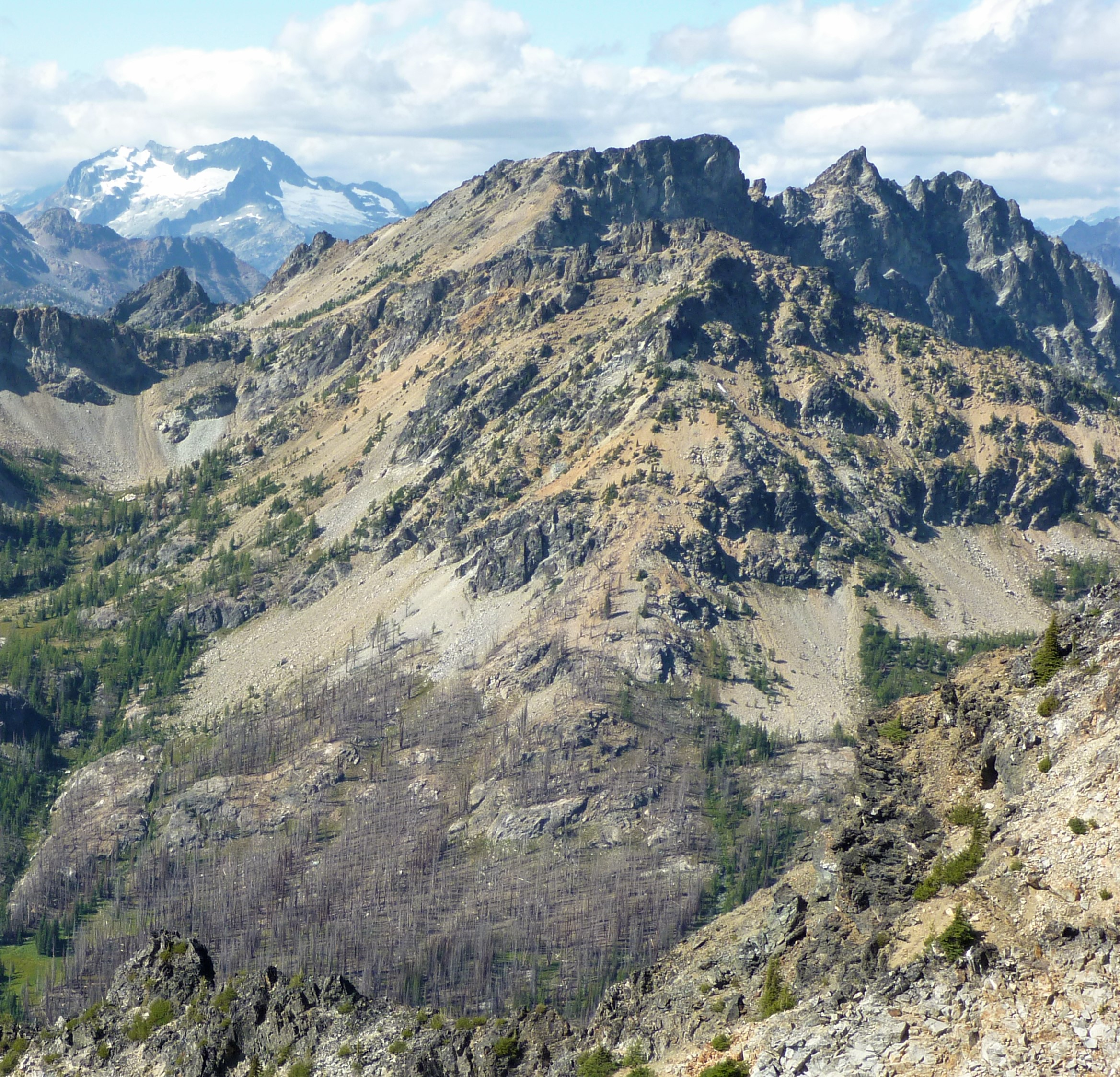 View from Saska (from the east) towards Pinnacle with the burned area in the valley below.